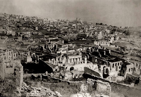 Ruins of Armenian part of the city of Shusha after 1920 anti-Armenian pogrom